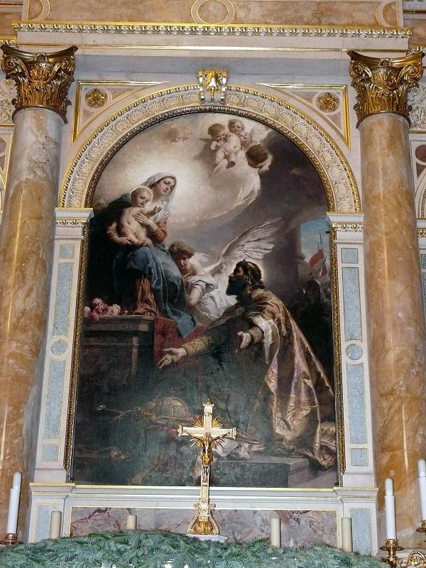 The Saint Stephen's Basilica in Budapest